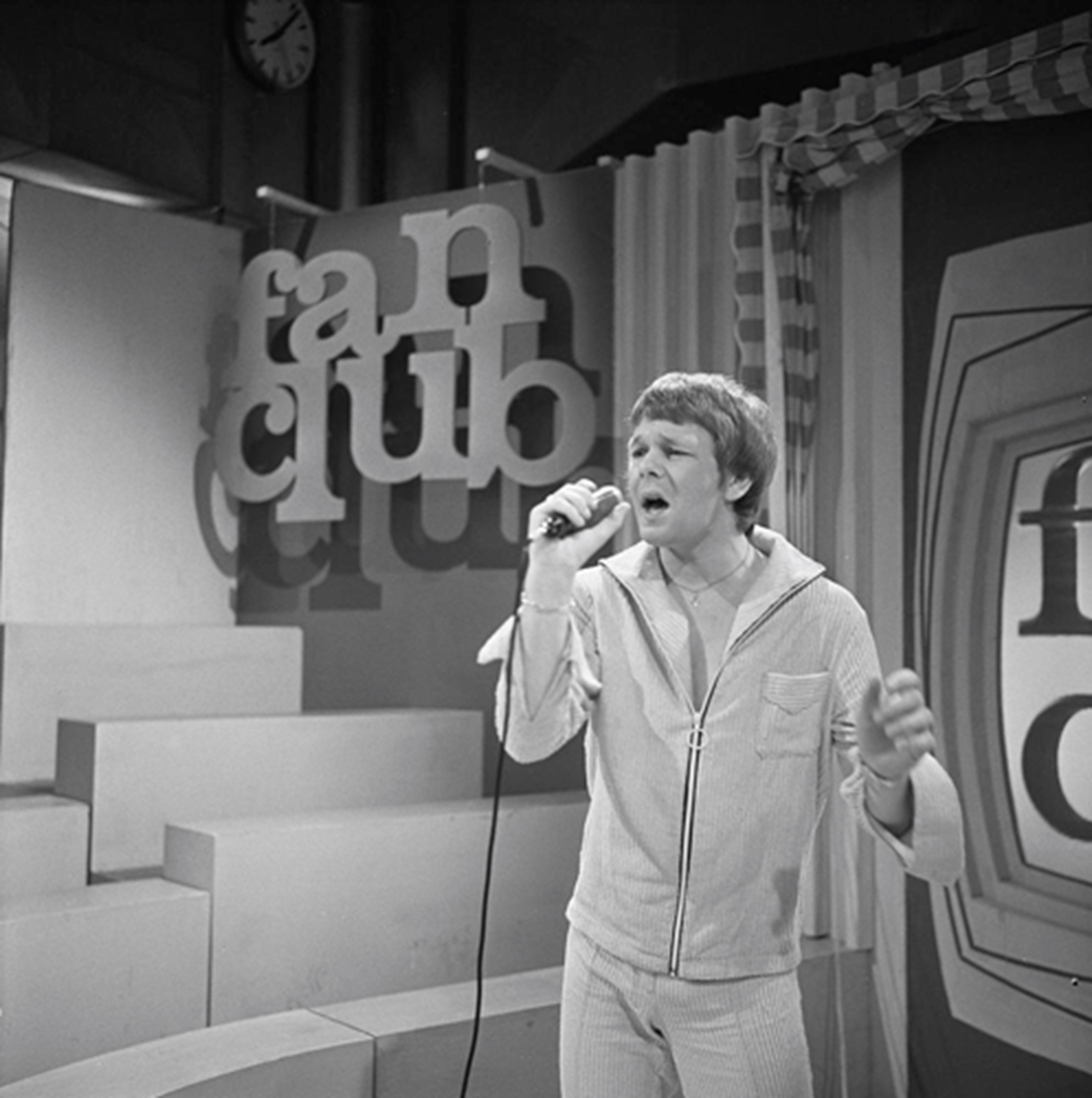 Graham Bonney singing Thank you baby and Happy together during recordings of the Dutch TV programme Fanclub, 27 May 1967